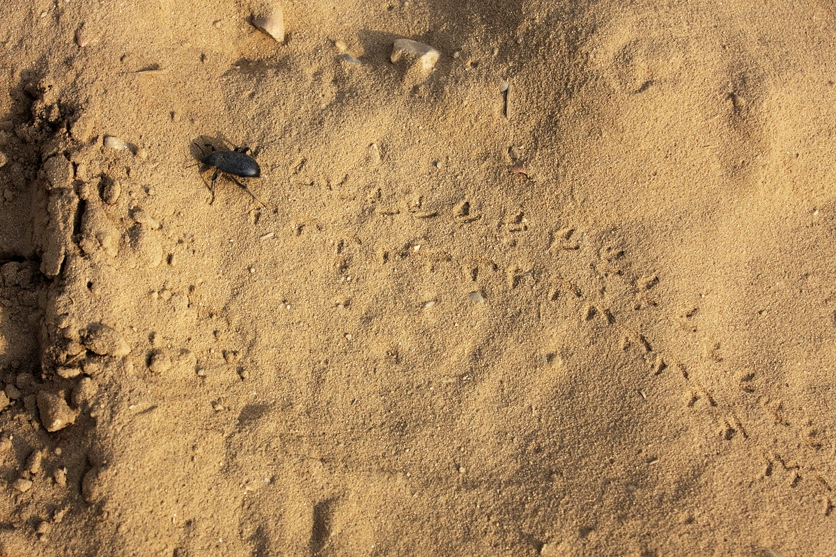 Insect from family Tenebrionidae walking on the sand. This sandland is situated on the Danuve river, near the village of Radujevac (Serbia). The open sand habitats are unique and represent only a small fragments, but this sand has being excavated by humand in recent history. Српски (ћирилица): Инсект из породице Tenebrionidae хода по песку. Ова пешчара је смештена на обали Дунава, поред села Радујевац (Србија). Станишта са отвореним песком су јединствена и представљају само мале фрагменте, али се овај песак интензивно копа у протеклих неколико година.